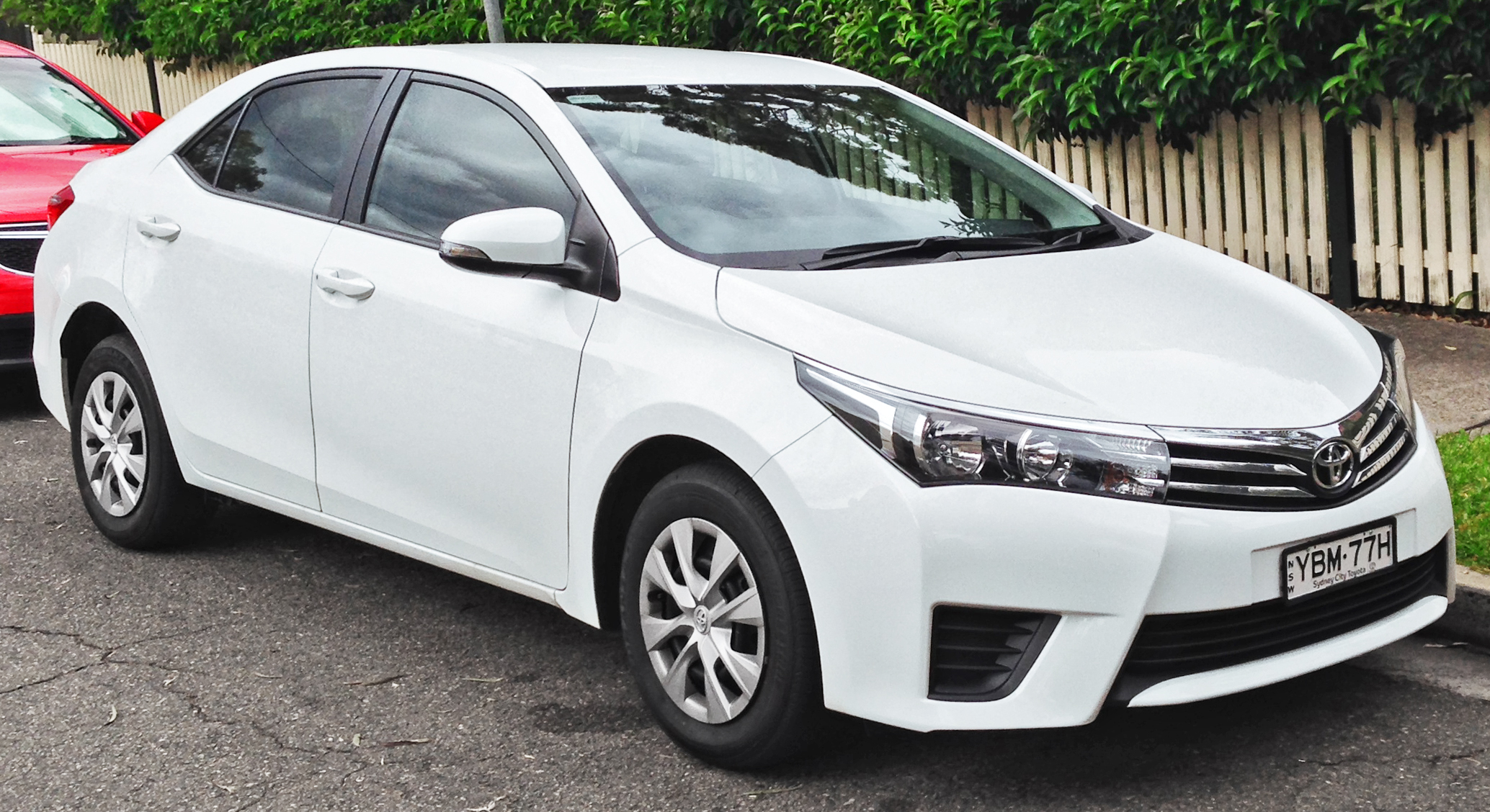 2014 Toyota Corolla (ZRE172R) Ascent sedan. Photographed in Croydon, New South Wales, Australia.